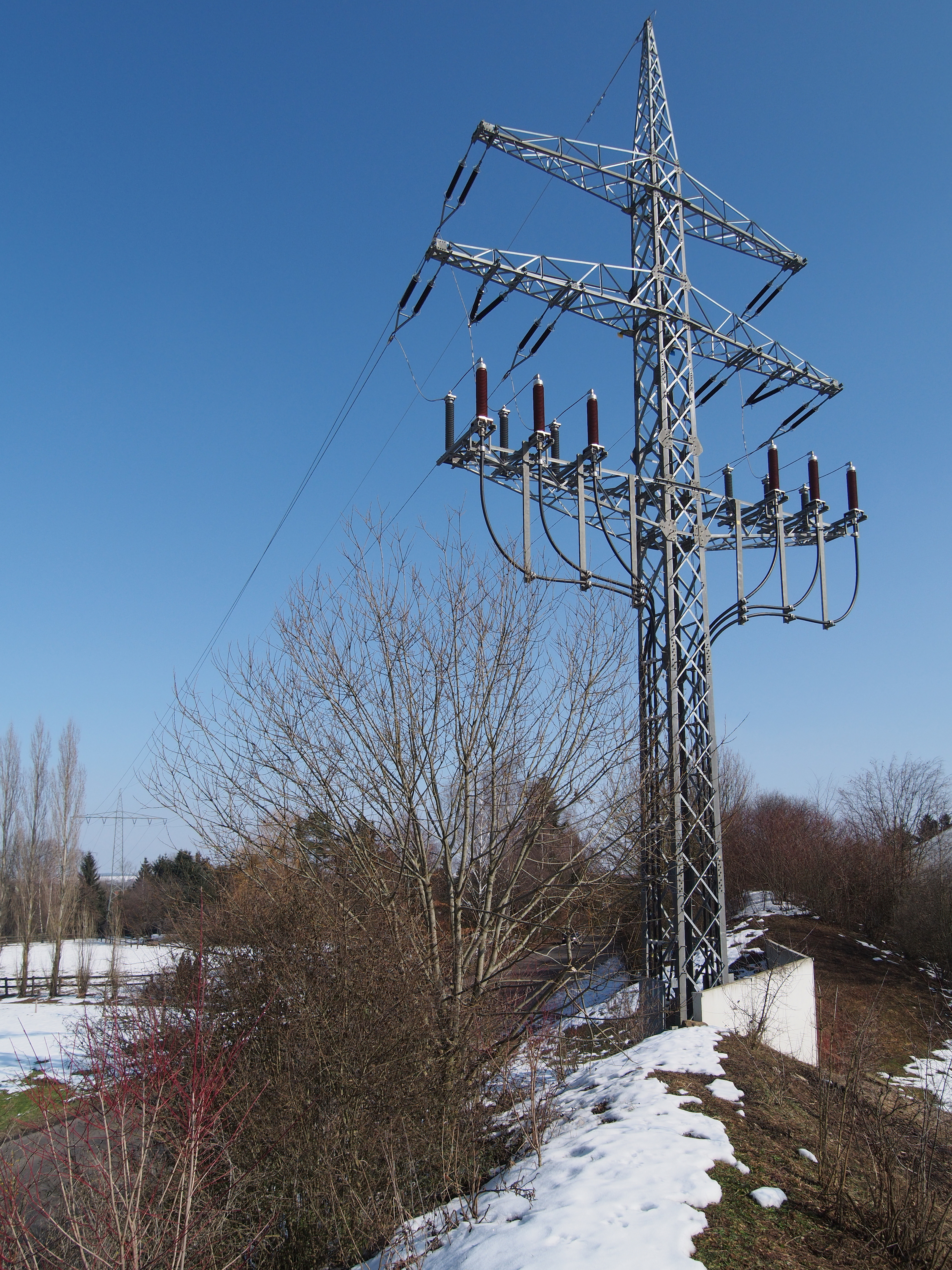 Dead-end pylon of a 110 kV line, leading into a ground cable